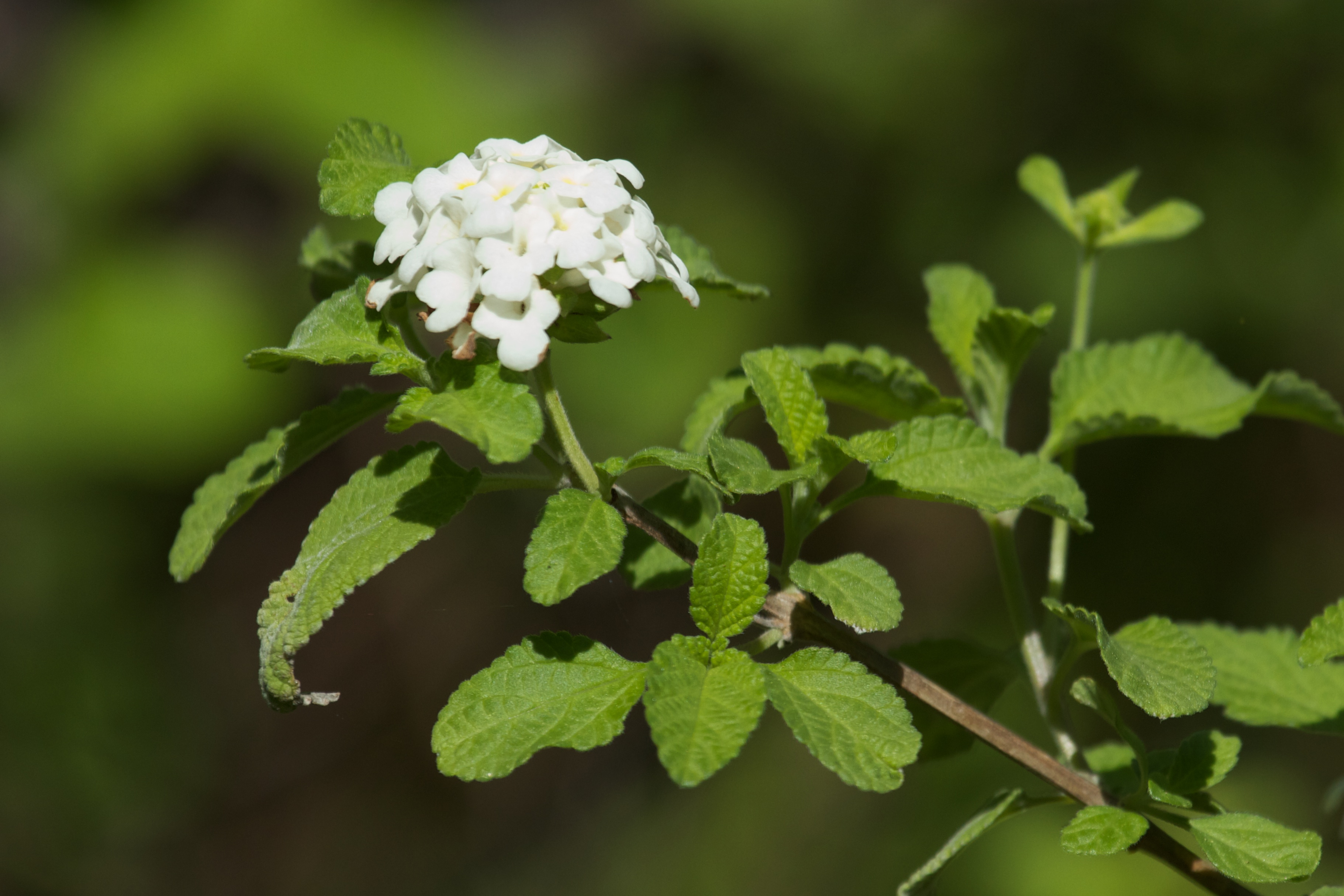 Lantana peduncularis at San Cristóbal, Galapagos